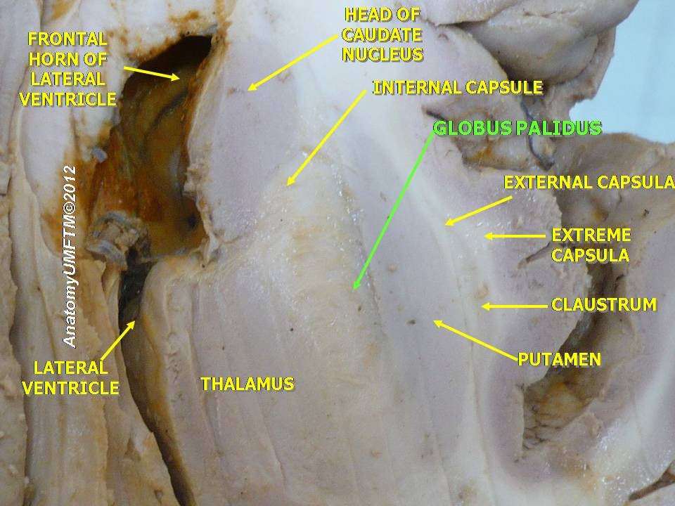 Anatomical dissection